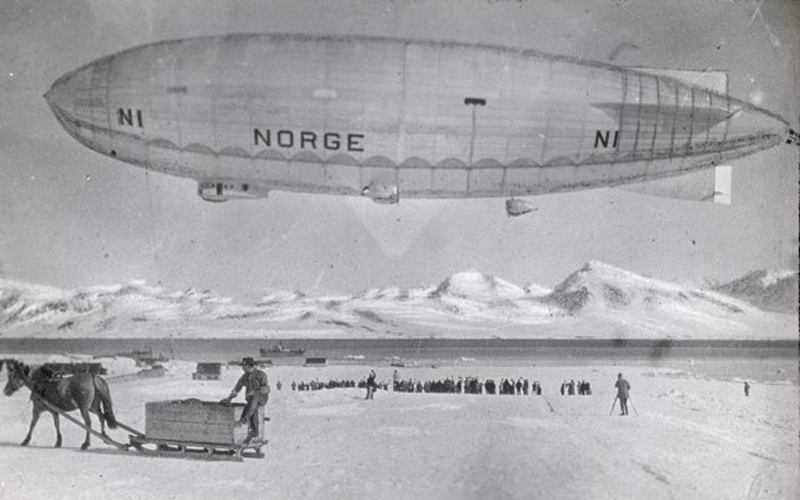 Airship Norge at Ny-Ålesund, Norway.